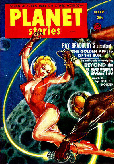 Cover of Planet Stories, November 1953